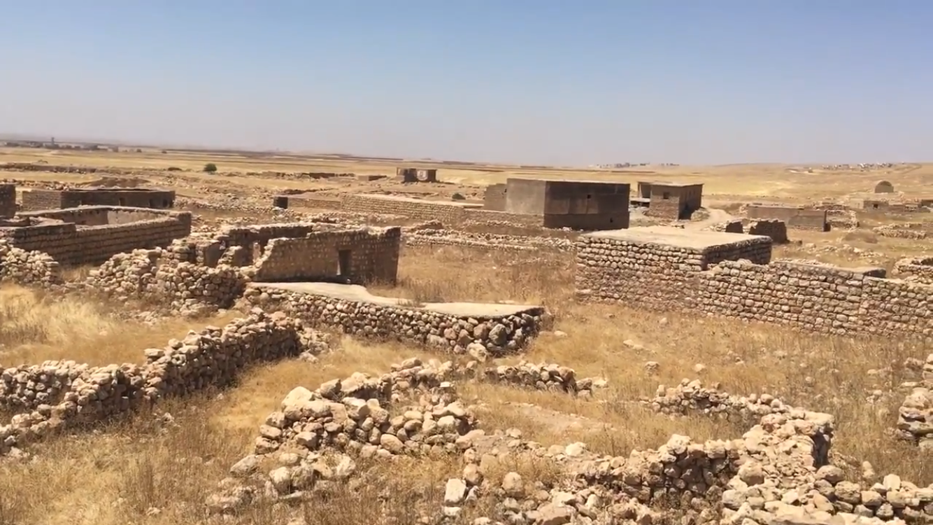 Yazidi village Khanik in Turkey